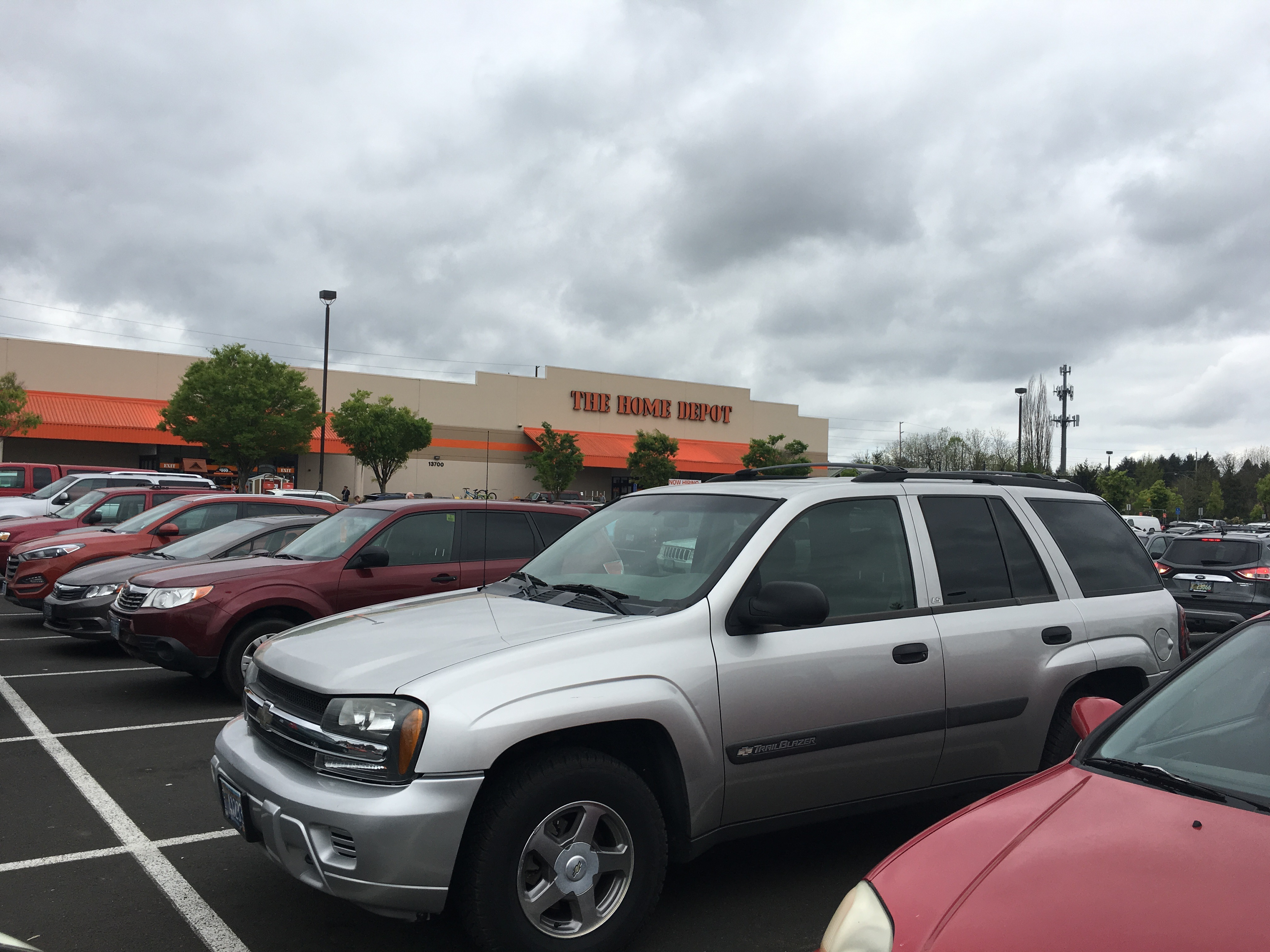 The Home Depot in Cedar Mill, Oregon